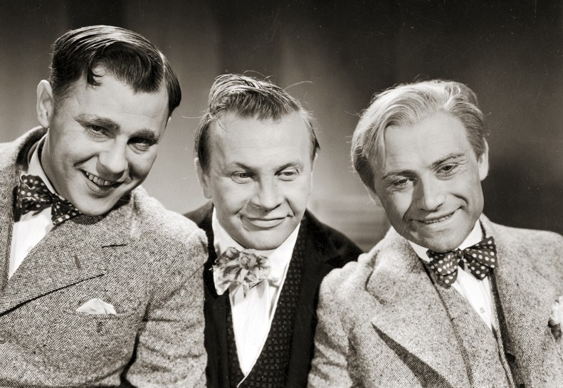 L-R: Kazimierz Wajda (Szczepcio, Szczepko), Stanisław Sielański and Henryk Vogelfänger (Tońcio), Polish comedians, film and radio actors.